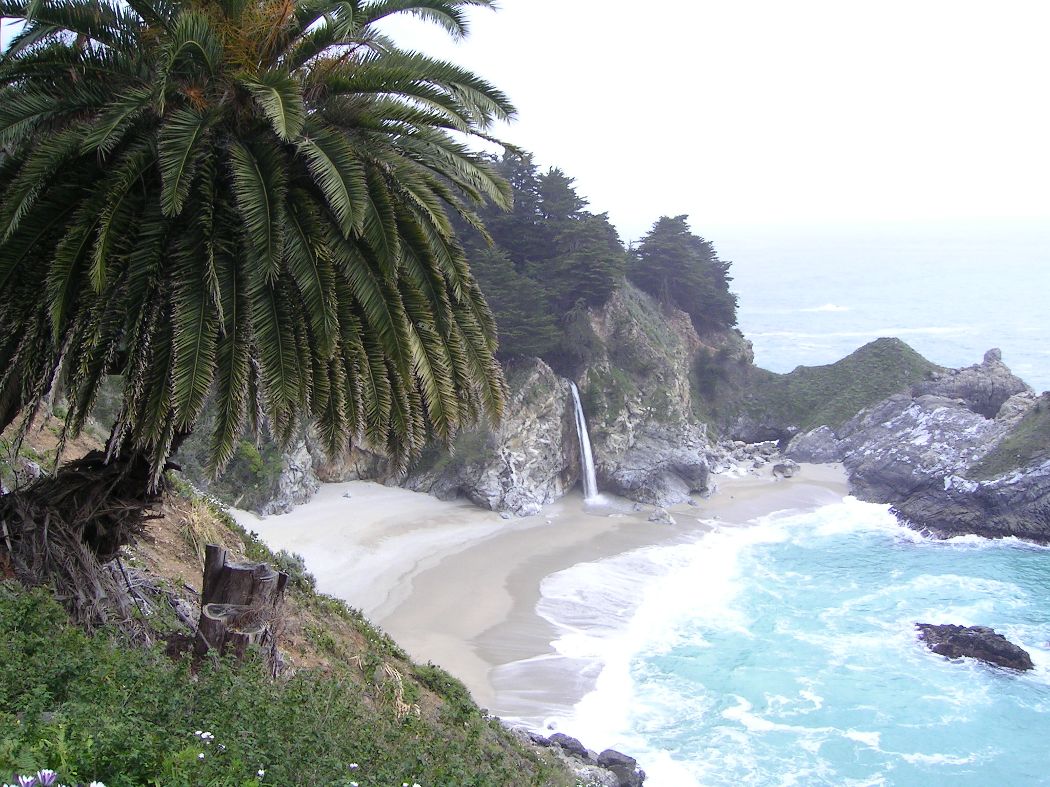 Big Sur, California , USA : Julia Pfeiffer Bruns State Park